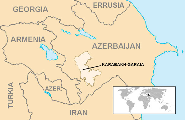 Basque version of File:Location Nagorno-Karabakh2.png